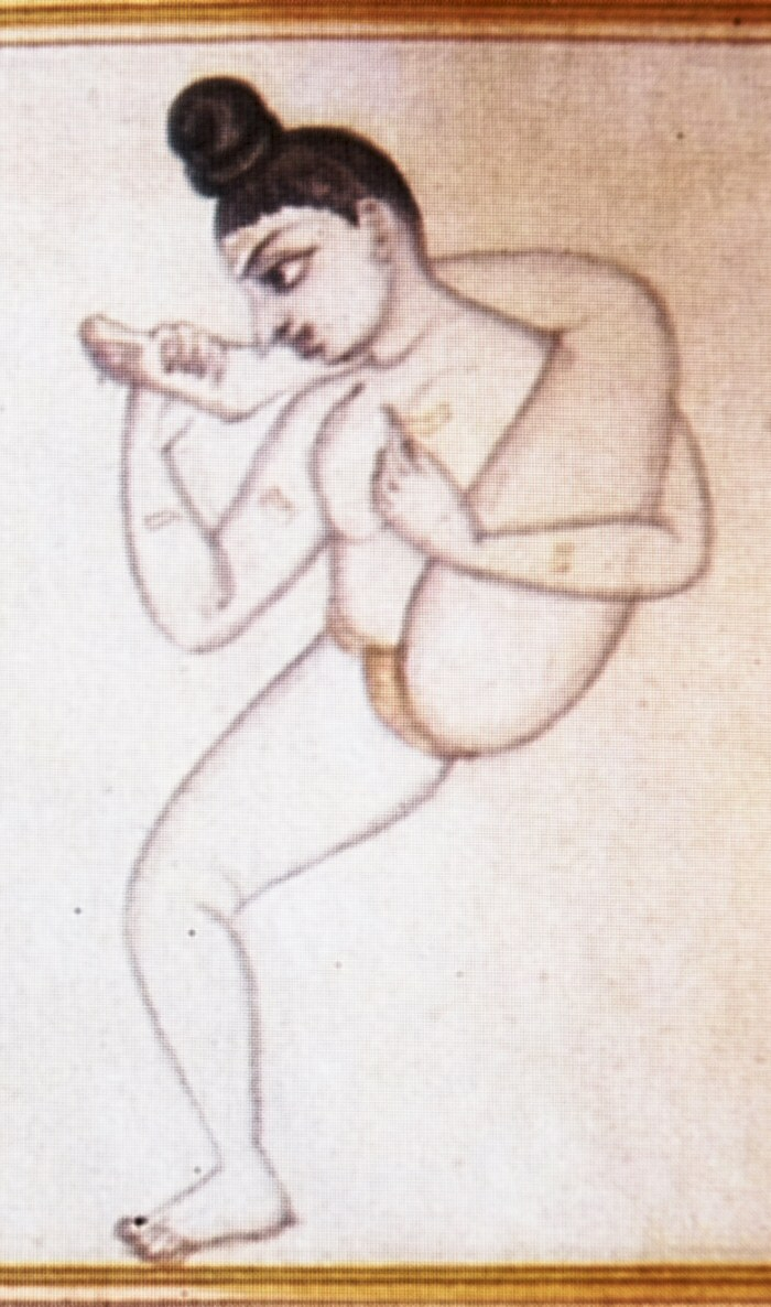 The yoga asana Durvasasana from the 19th century Sritattvanidhi